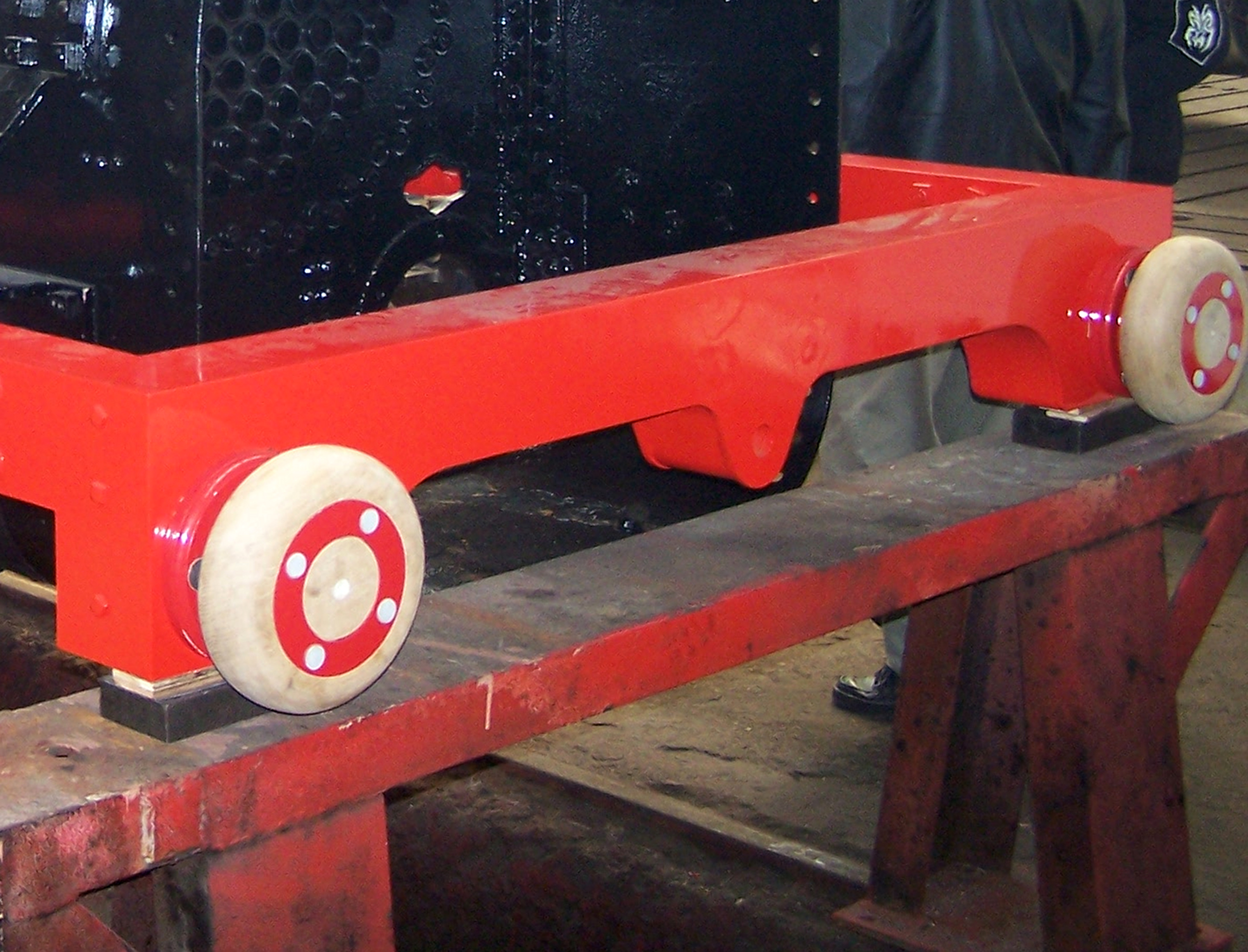 still unpainted wooden buffers of the first steam locomotive in Germany Adler (reproduction of 1935), seen from front right, in the Dampflokwerk Meiningen, Germany at the Dampfloktage, September 2007